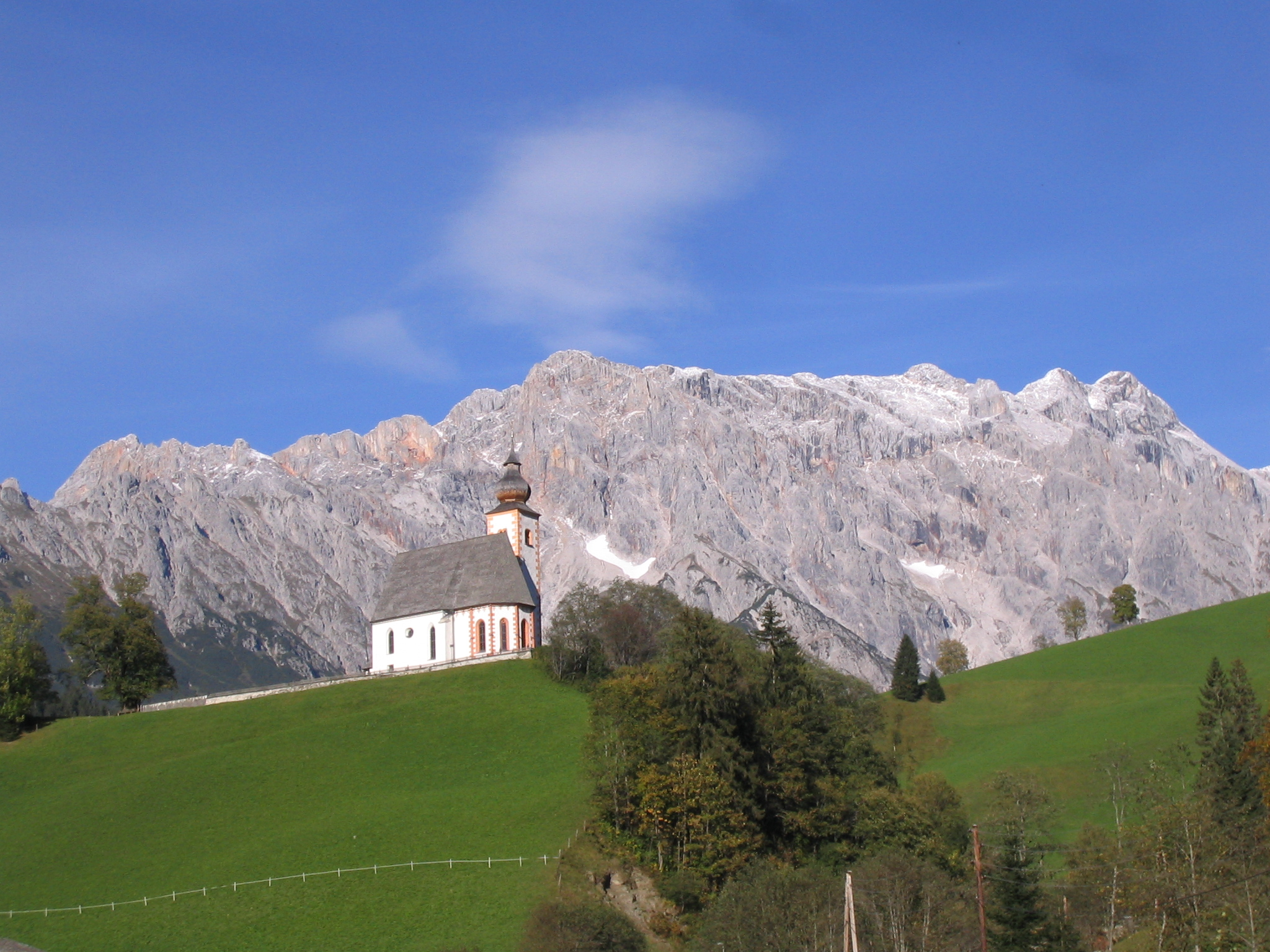 Hochkönig, Northern Limestone Alps